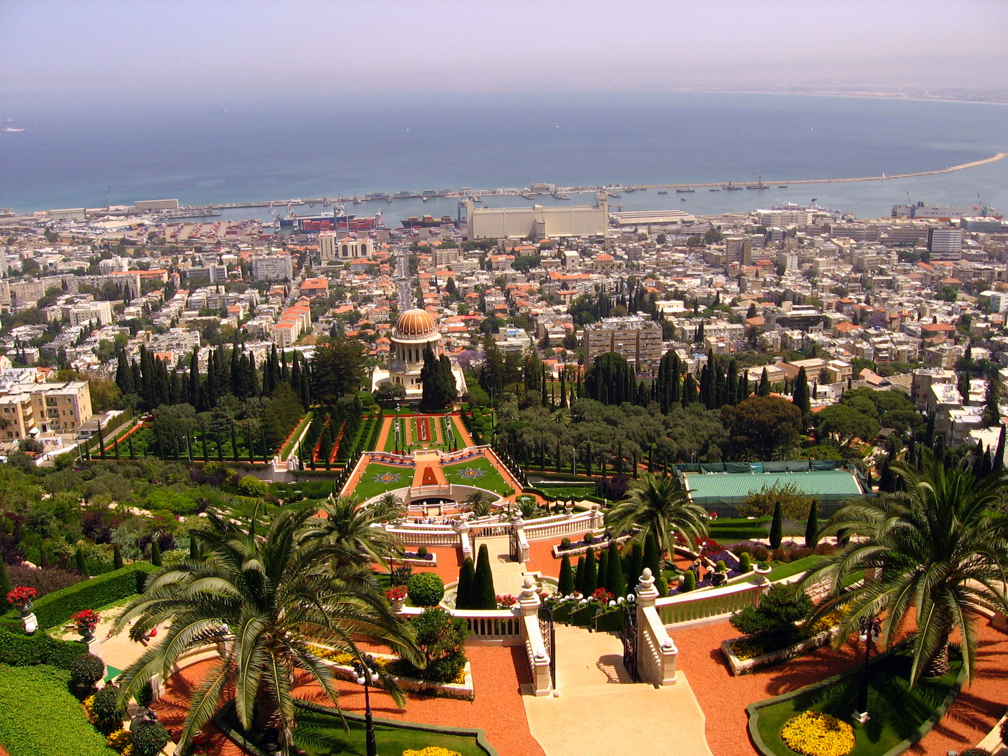 Israel-Carmel-050508 033 Bahá'í World Centre sites in Haifa